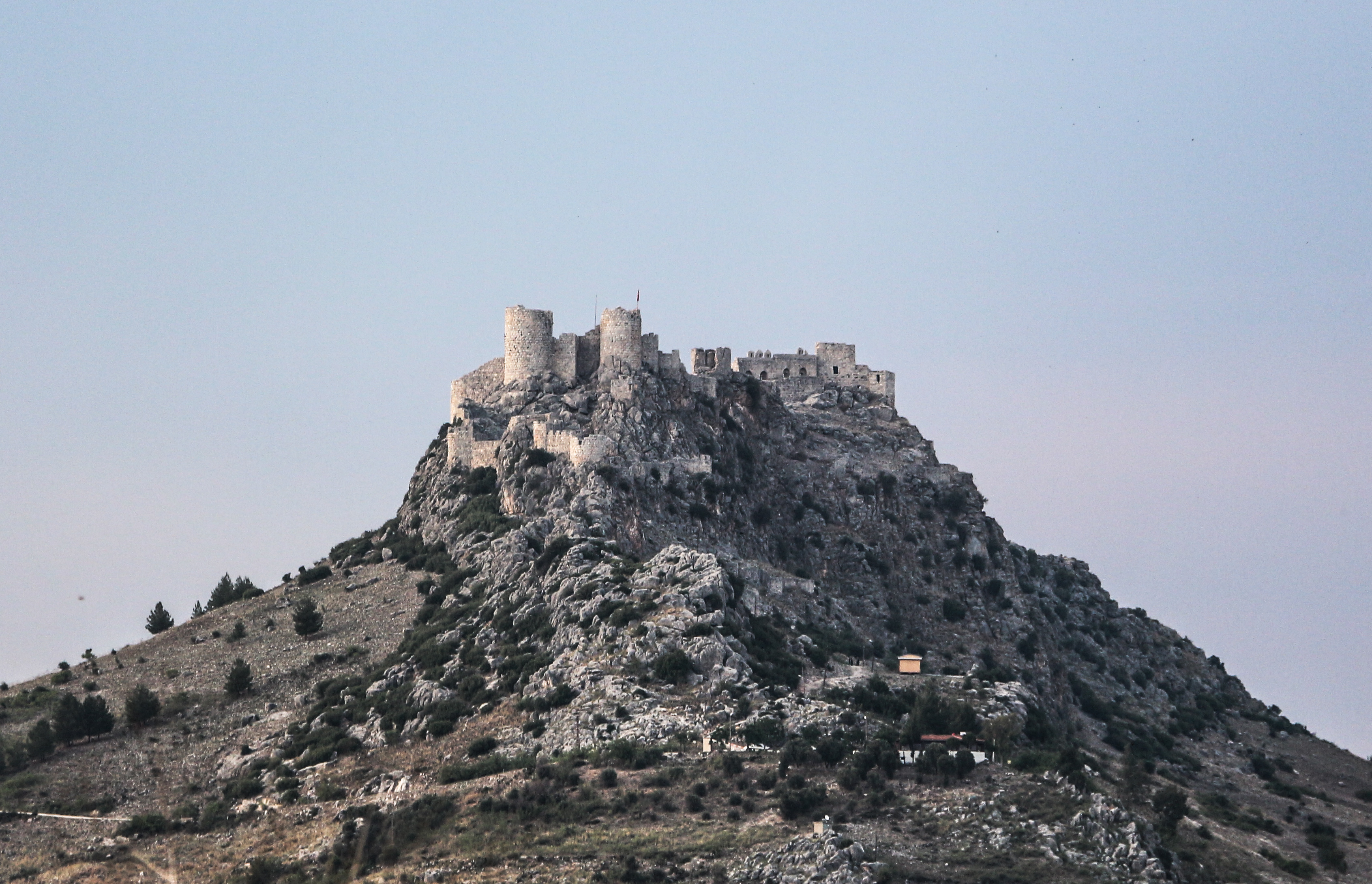 Yilankale (Snake Castle), Adana Province, Turkey